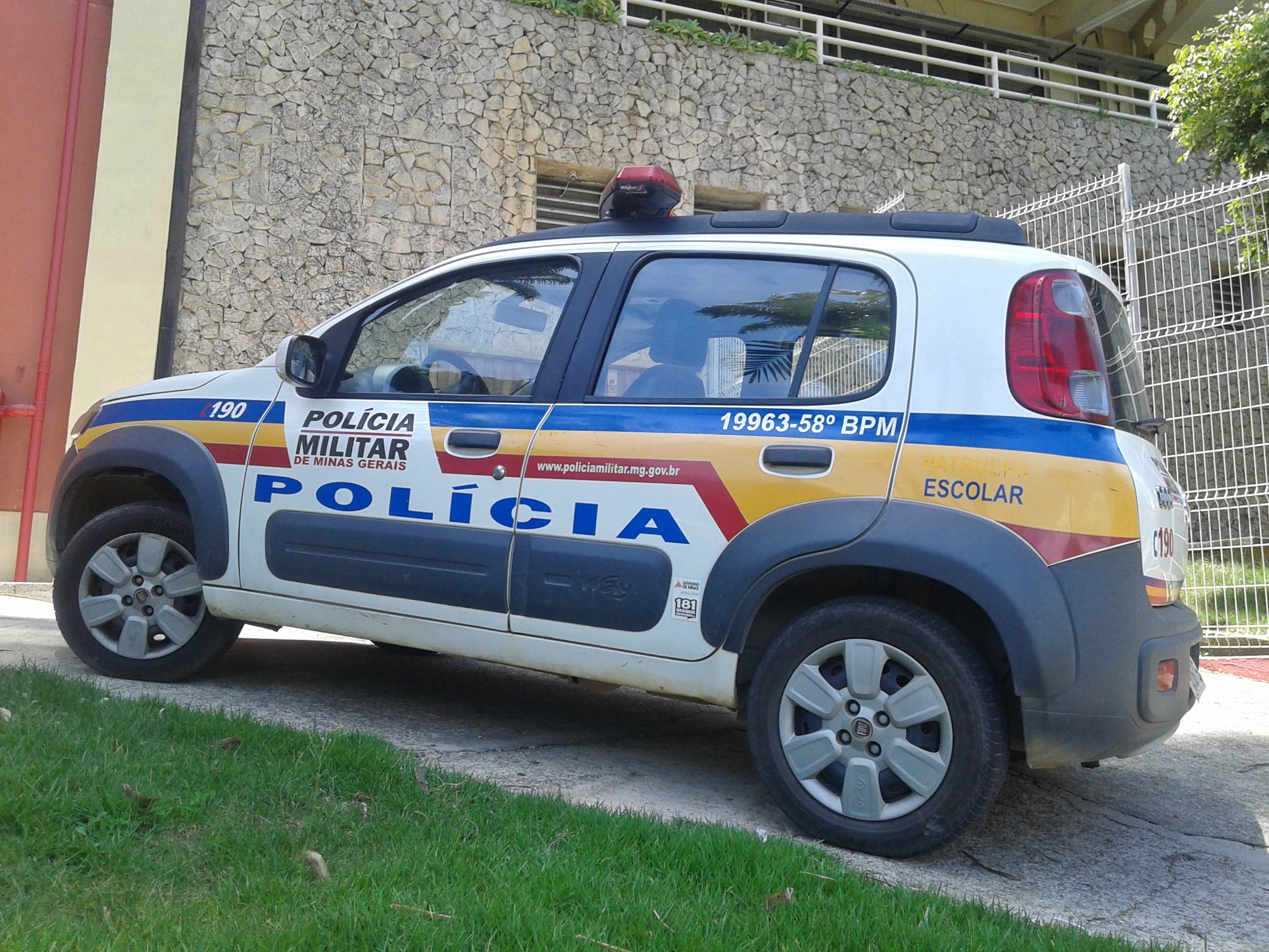 Military Police of Minas Gerais State (PMMG) car in Coronel Fabriciano, Brazil.